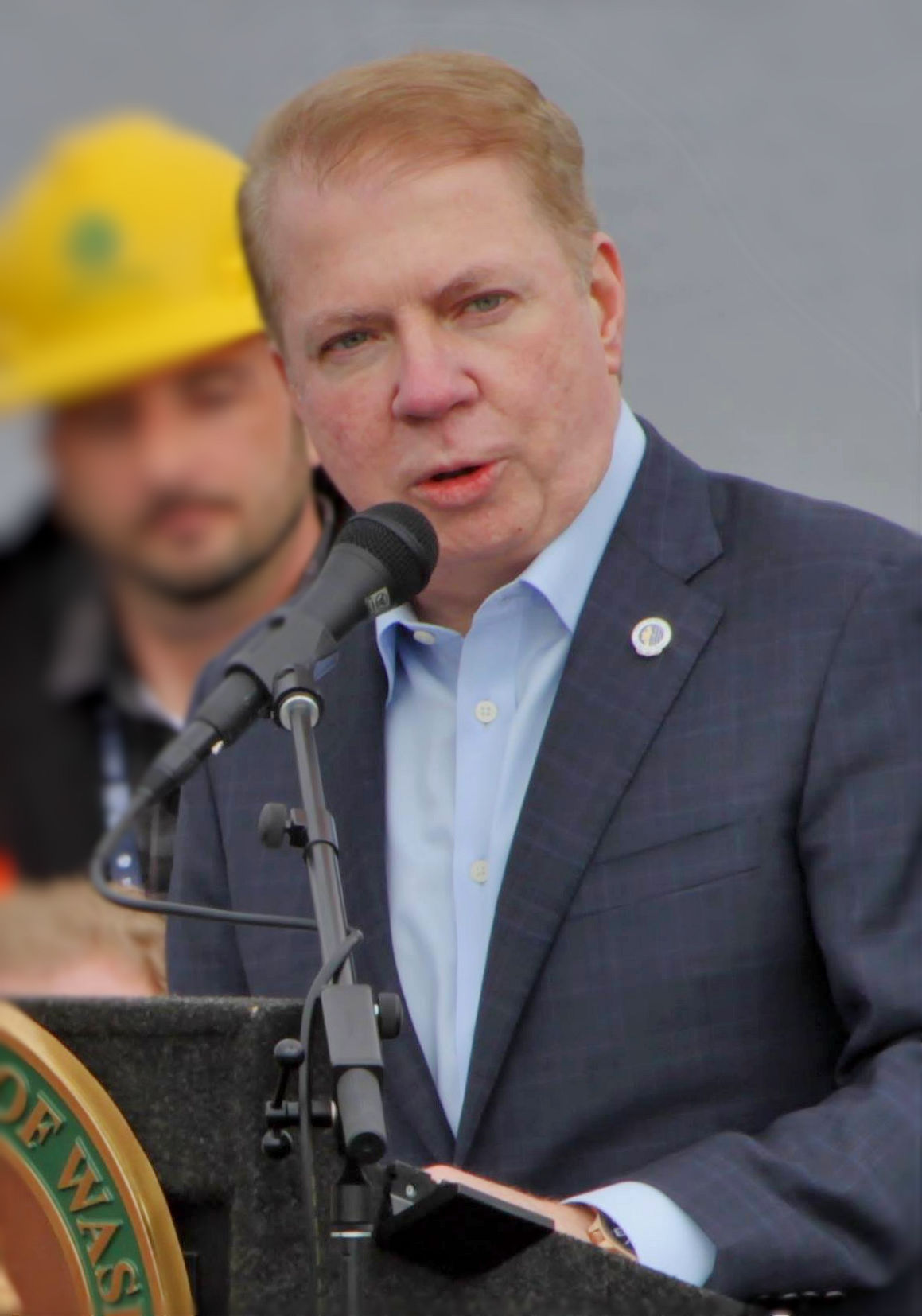 Cropped and edited version of a photo of Ed Murray speaking at opening of the Evergreen Point Floating Bridge on April 2, 2016